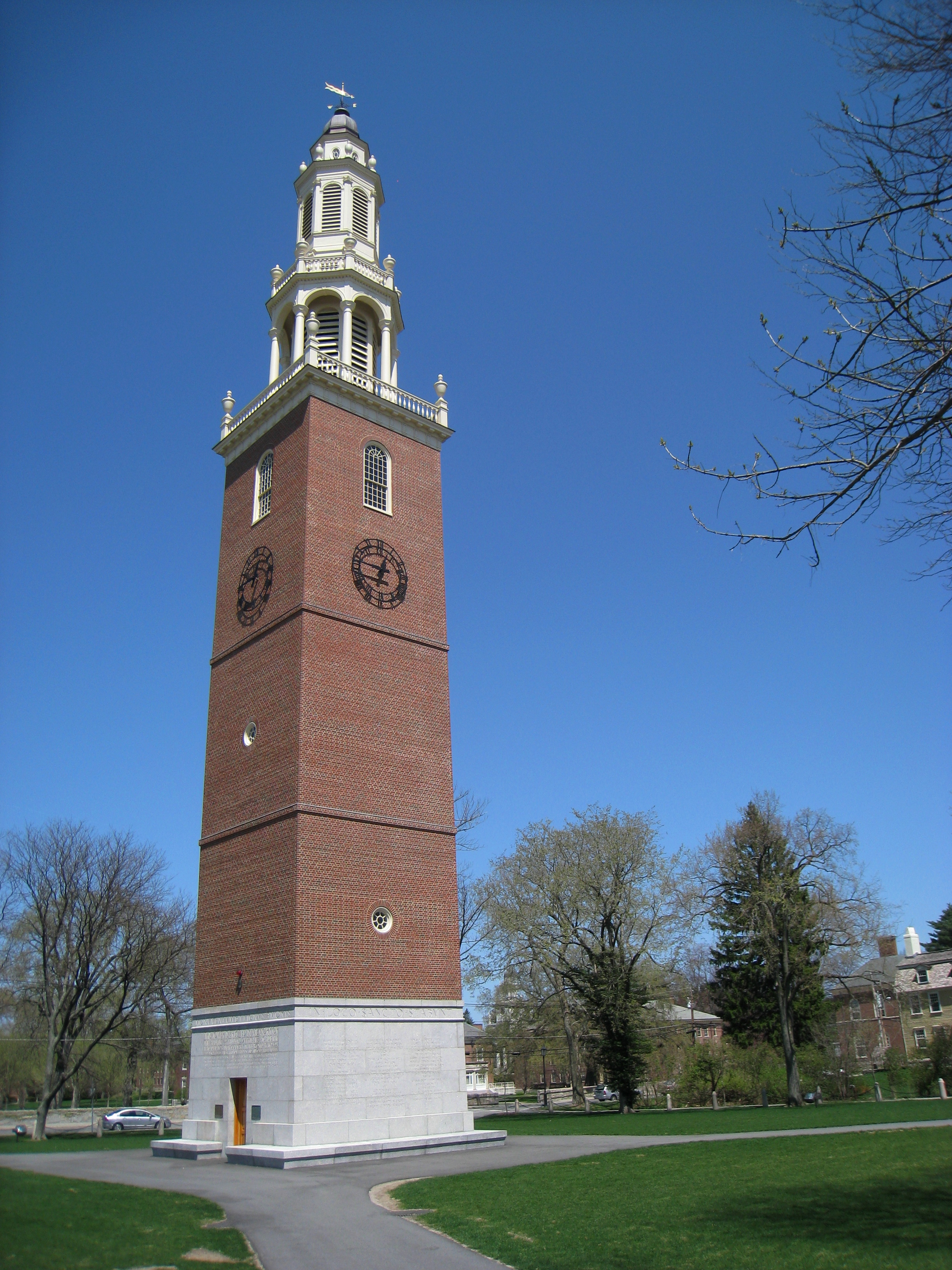 Phillips Academy, Andover, Massachusetts, USA - Memorial Bell Tower, oblique view. Architect Guy Lowell.